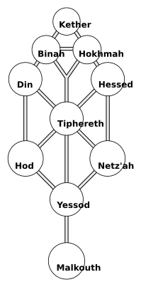 description : Tree of Life, based on picture Image:Tree of Life, Medieval.jpg comment : SVG on the talk page